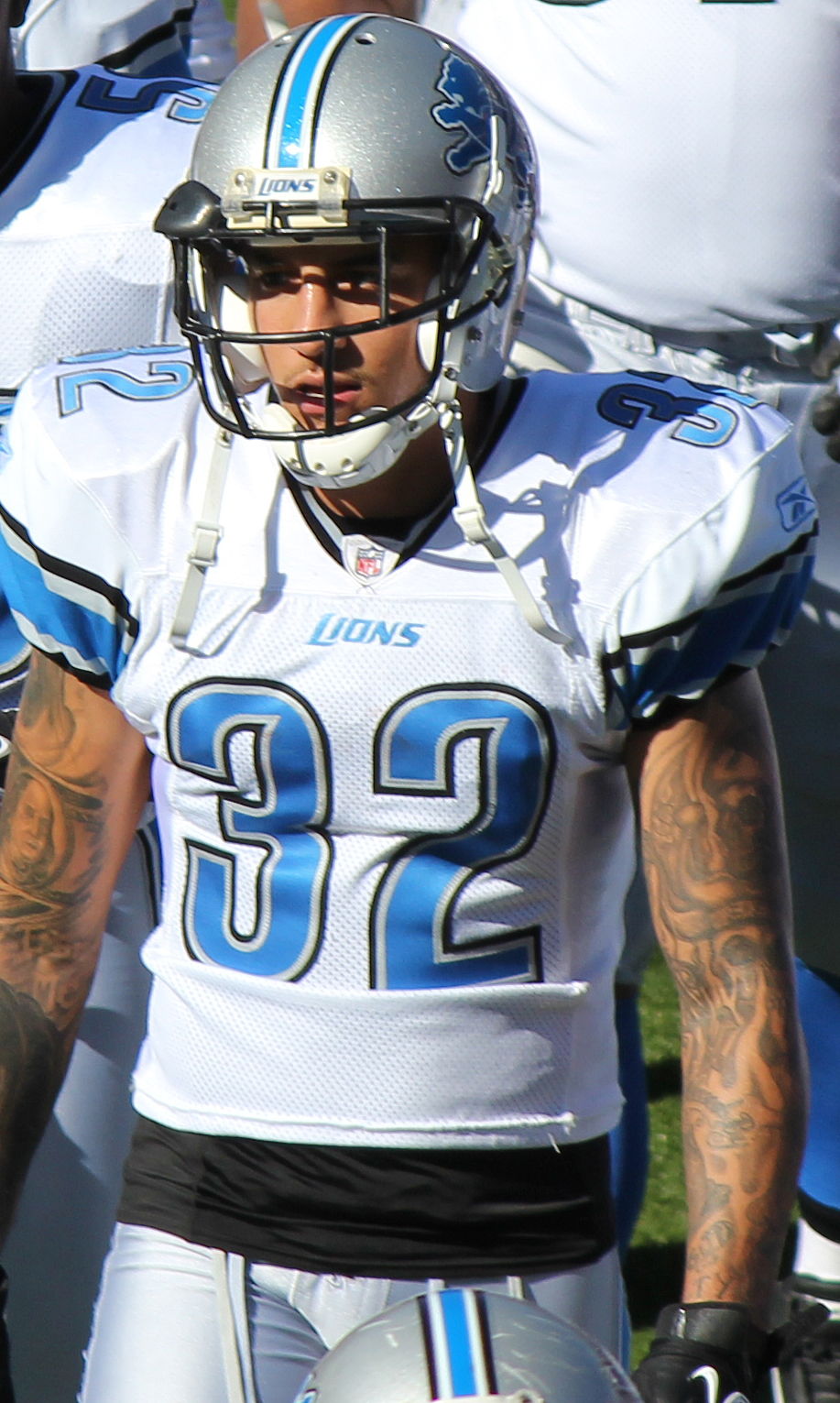 Aaron Berry, a player on the National Football League.